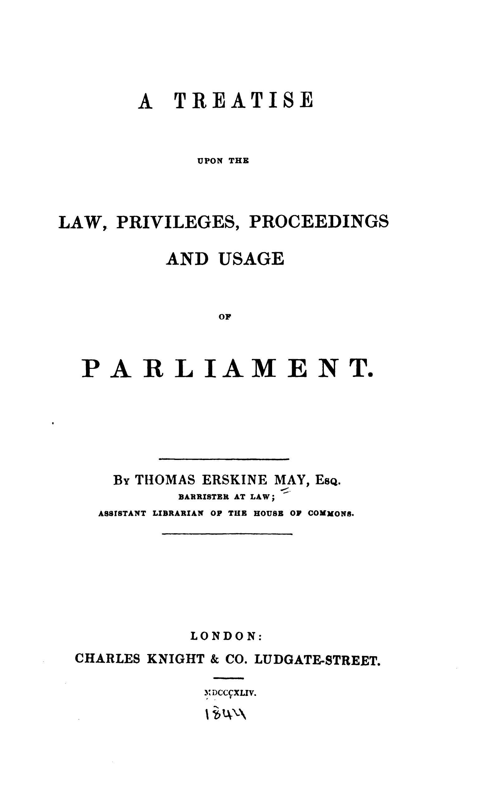 Scan of the title page to the 1st edition of Thomas Erskine May's book "A Treatise upon the Law, Privileges, Proceedings and Usage of Parliament", published London, United Kingdom, 1844